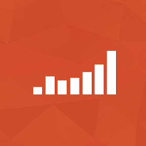 The YouTube channel icon for Social Blade (as of March 2019). Similar graphics are also used elsewhere on the Web.